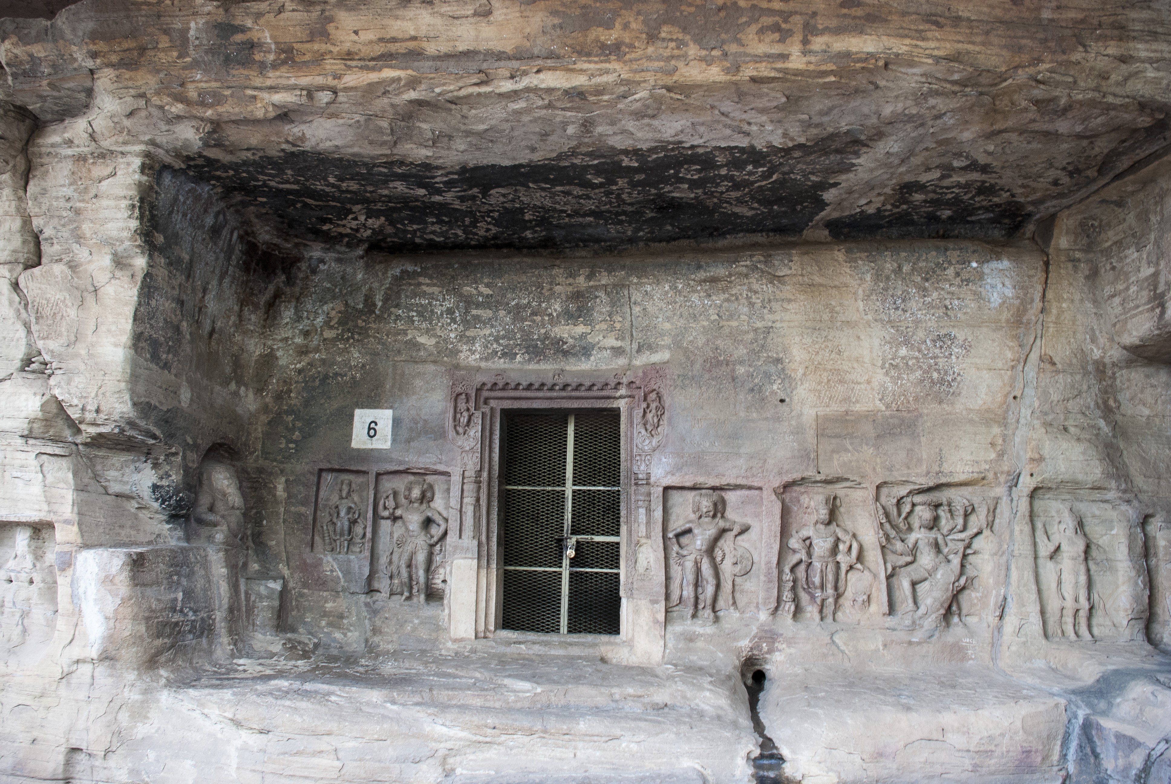 Udaigiri Cave 6